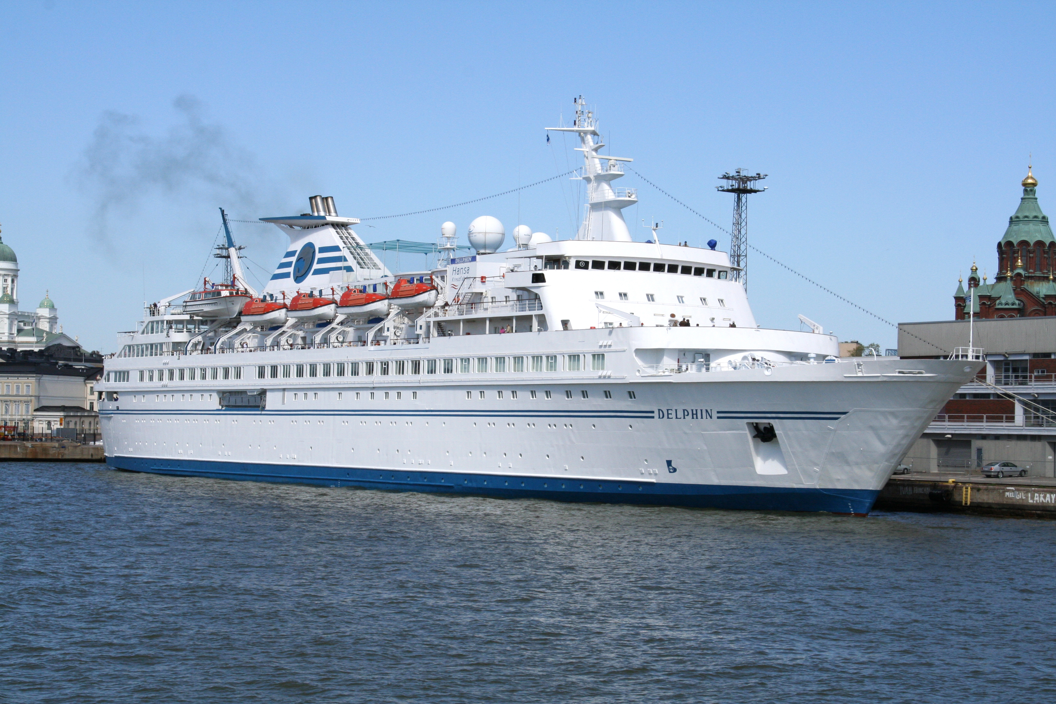 Hansa Kreuzfahrten cruise ship MS Delphin moored in Helsinki South Harbour.